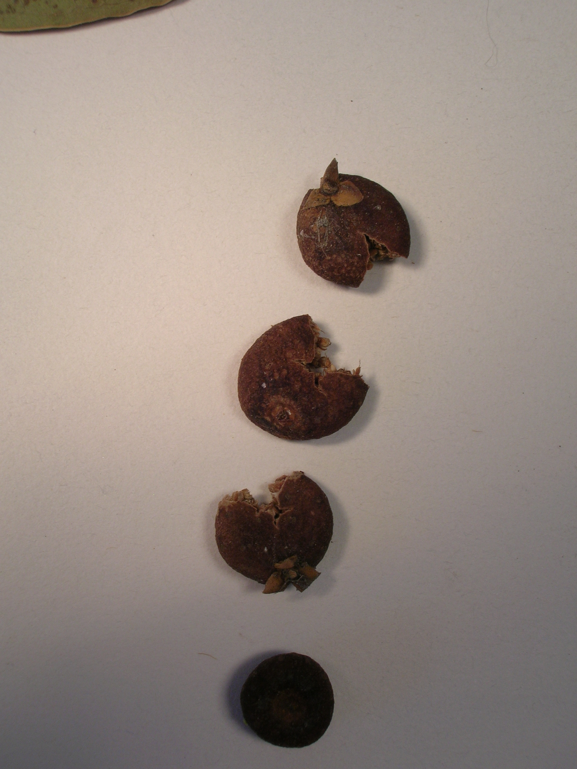 Ficus microcarpa (voucher 080601 19). Location: Midway Atoll, Across from barracks Sand Island